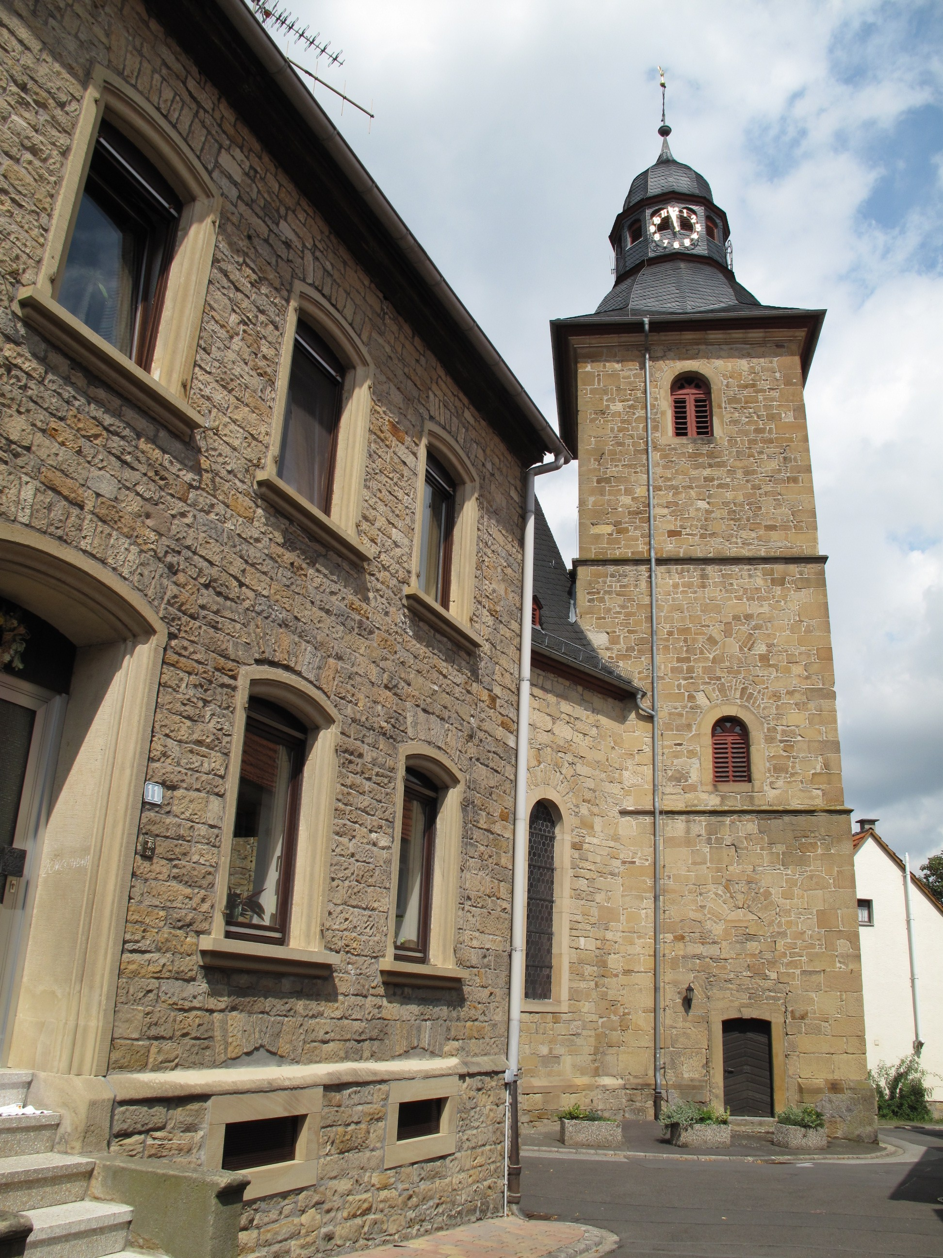 Odernheim am Glen, church